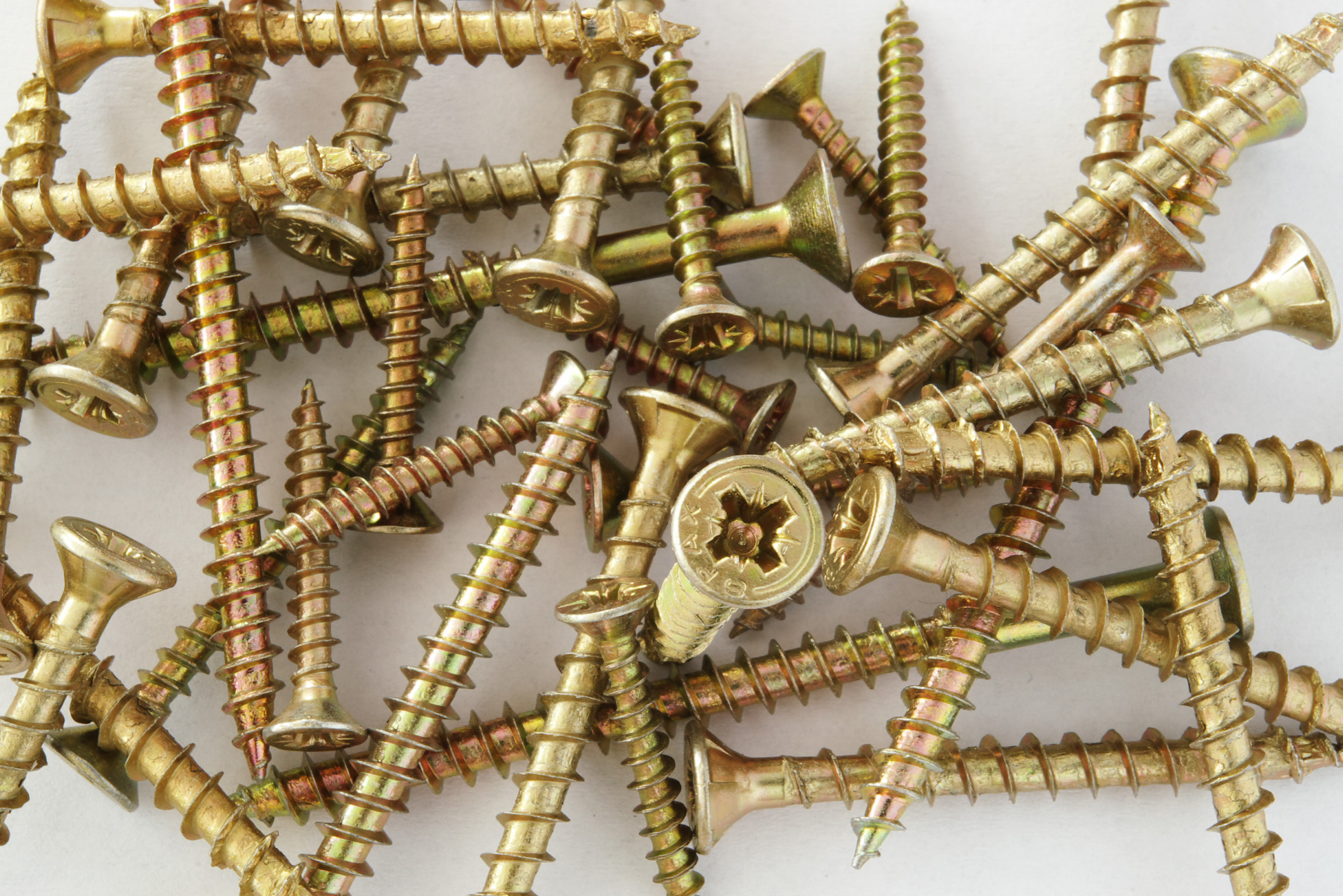 Spax drywall screws with a pozidriv screw drive